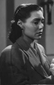 Lydia Quintana- actriz